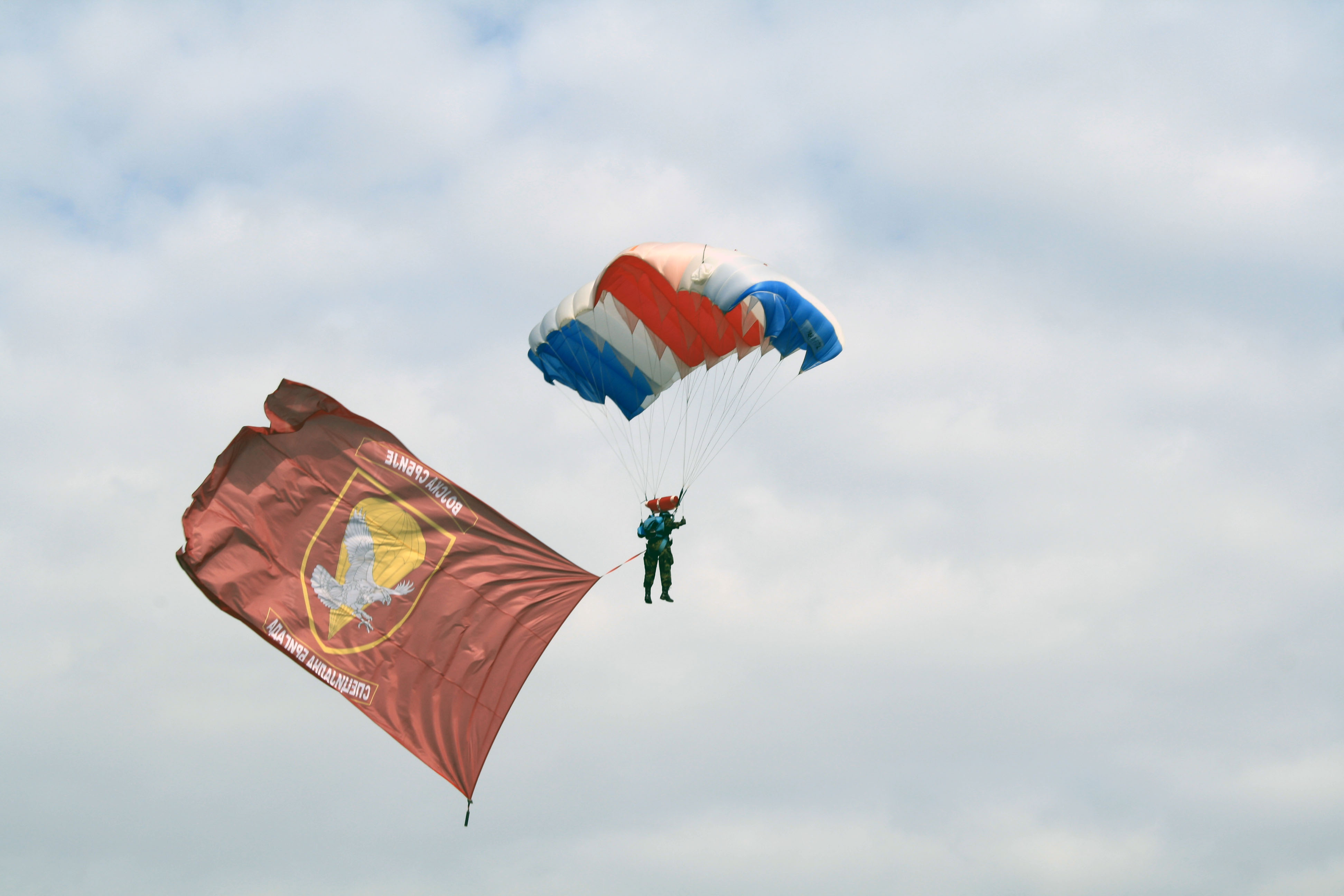 Member of 63rd Paratroop Battalion from Special Brigade of Serbian Army landing with flag during the military exercise "Ušće 2011".